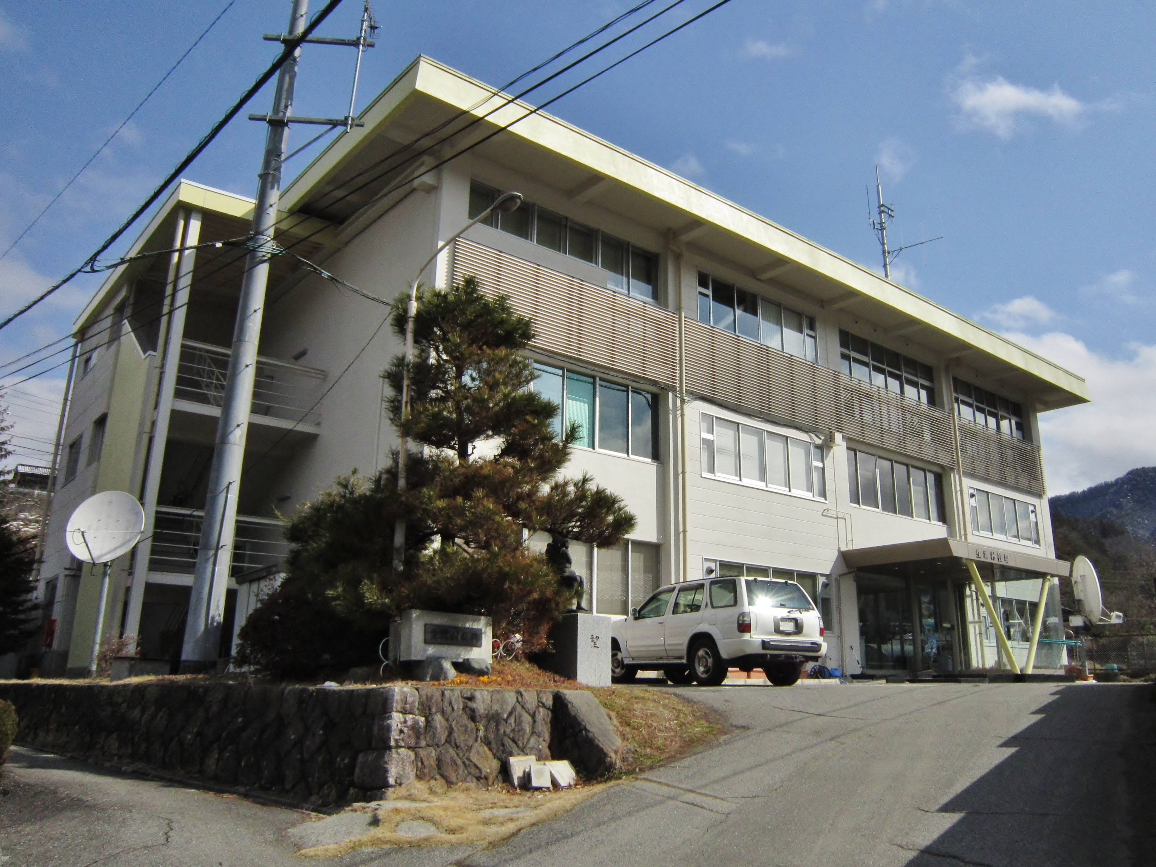 Ikusaka village office.